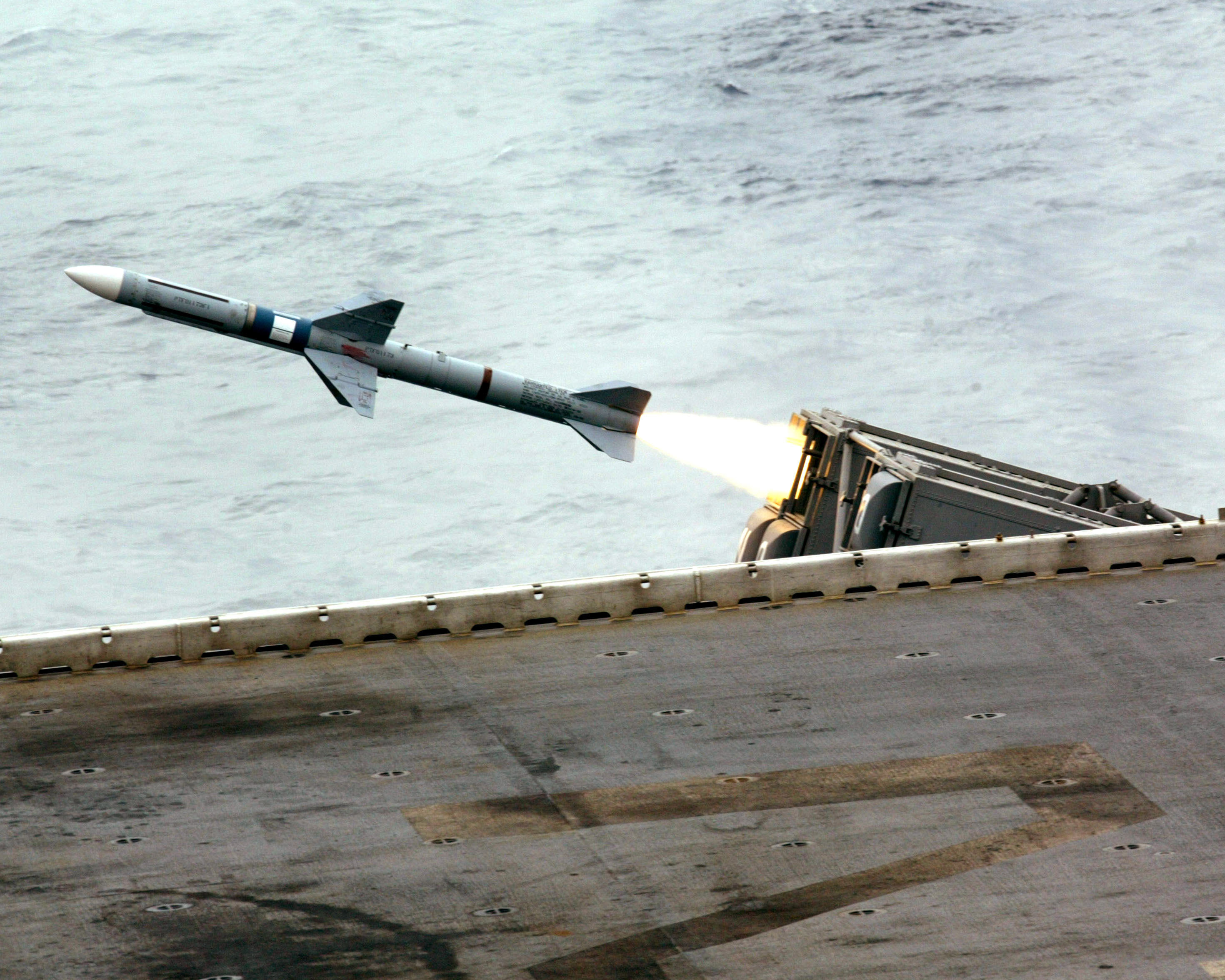 The U.S. Navy amphibious assault ship USS Essex (LHD-2) launches one of the ship’s RIM-7 Sea Sparrow surface-to-air missiles during a training exercise. The U.S. Navy uses the Sea Sparrow version aboard ships as a surface-to-air anti-missile defense weapon. The Sea Sparrow has all-weather, all-altitude operational capability and can attack high-performance aircraft and missiles from any direction. During the exercise, the missile intercepted a remote controlled, GPS-guided test drone. Essex and the guided missile destroyer USS John S. McCain (DDG-56) participated in the missile firing exercise conducted to test the ships defensive capability.